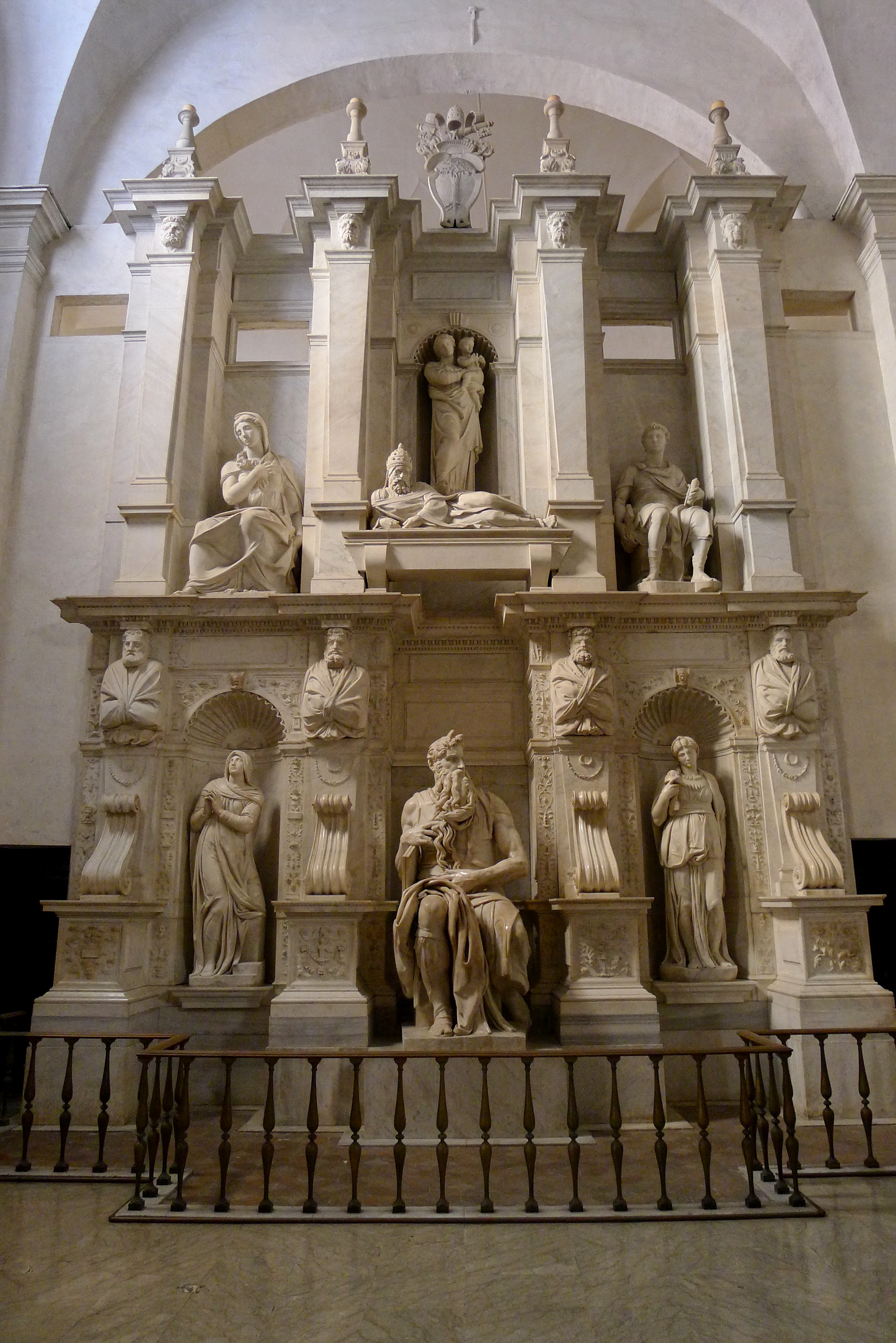 Michelangelo Buonarroti, Tomb (1505-1545) for Julius II, San Pietro in Vincoli (Rome)